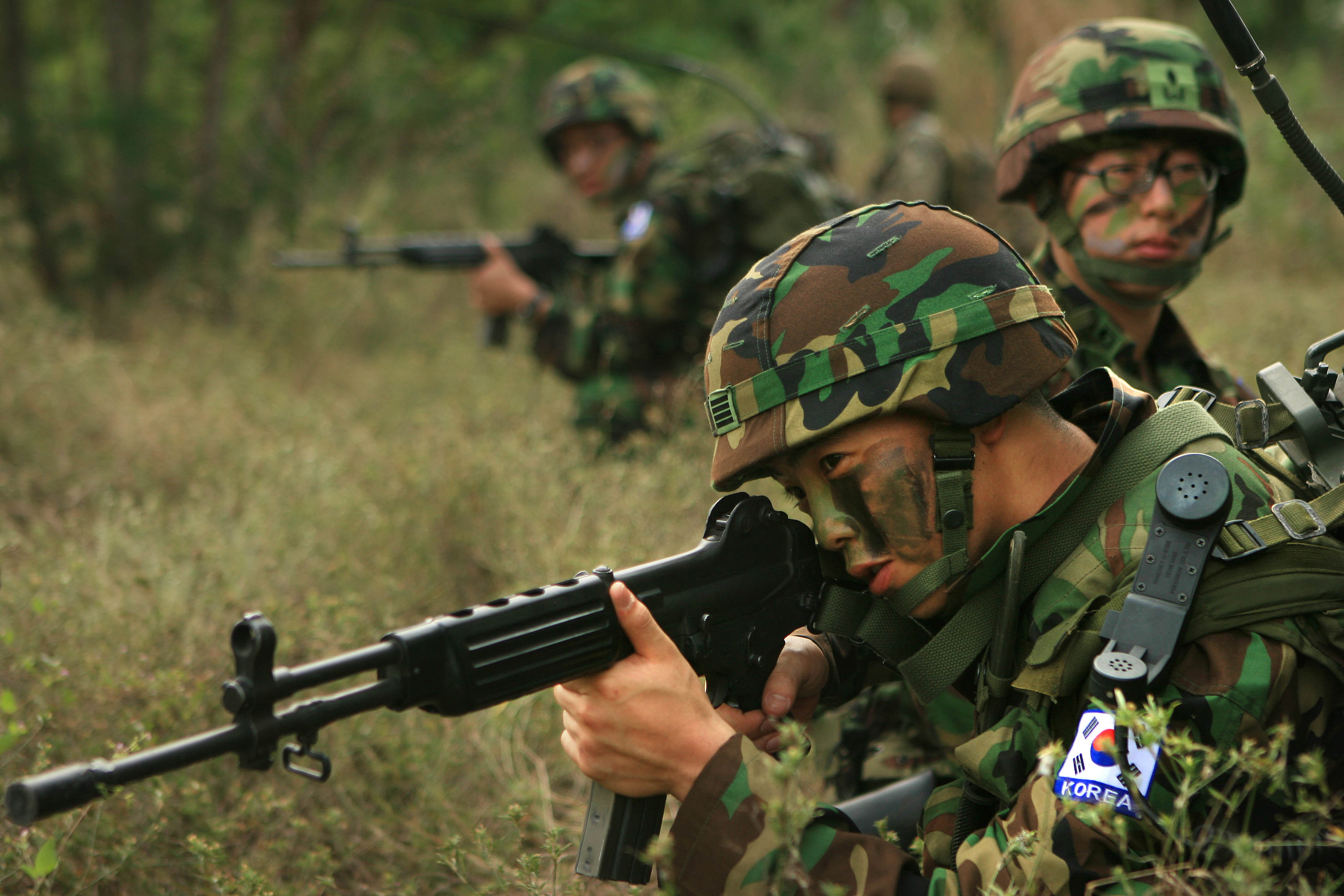 Lance Cpl. Jang Soon Park, a combat engineer with the Republic of Korea (ROK) Marine Corps, provides security after coming ashore from amphibious assault vehicles (AAV) during Cobra Gold 2010 (CG’ 10), Feb. 4. The 31st Marine Expeditionary Unit (MEU) is currently participating in CG ’10. The exercise is the latest in a continuing series of exercises designed to promote regional peace and security.